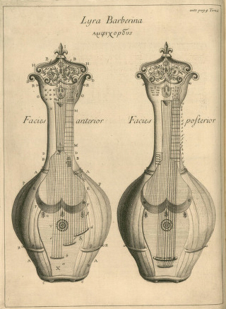 Experimental lyre called 'Lyra Barberina' from the treatise written by G.B.Doni in ca.1643 and first published in 1763